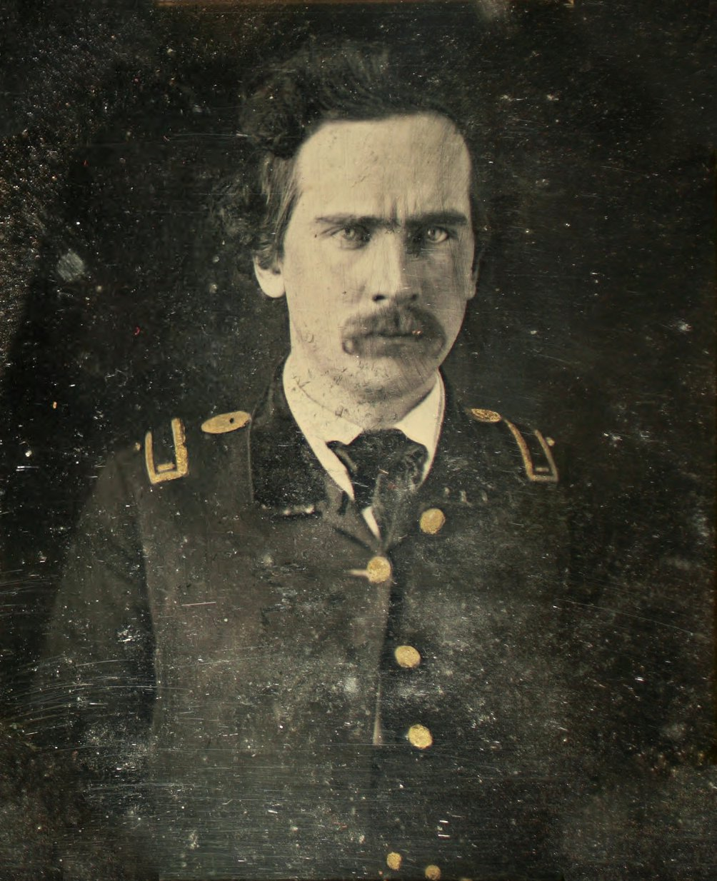 William Polk Hardeman, SMU Collections